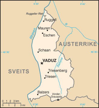 CIA map from the World Factbook of Liechtenstein with Norwegian Nynorsk textNorsk nynorsk: CIA-kart frå The World Factbook over Liechtenstein med nynorsk tekst